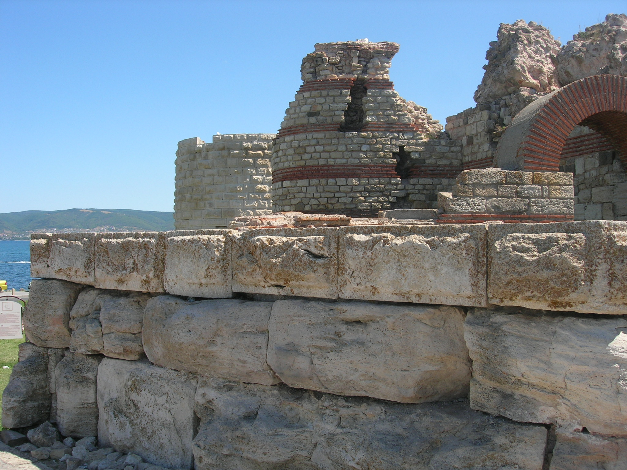 Old walls of Nessebar